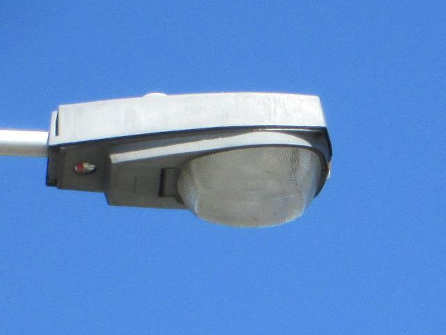 History of street lighting